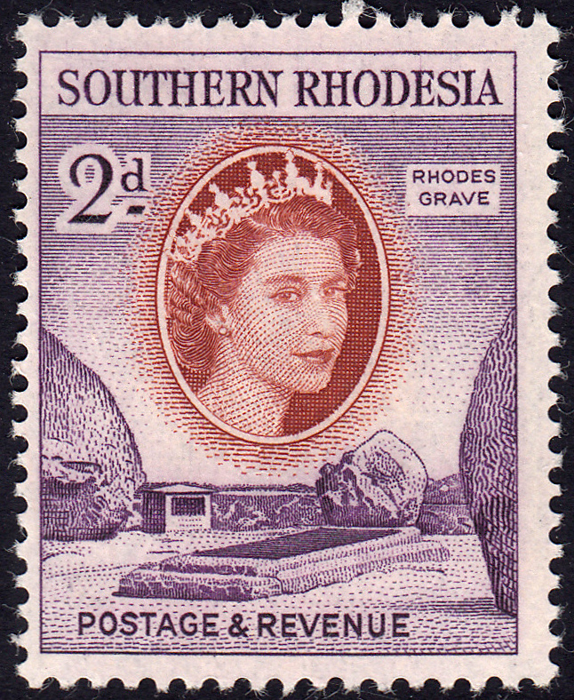 Postage stamp of Southern Rhodesia, 1953, 2d, scott#83. Rhodes' grave